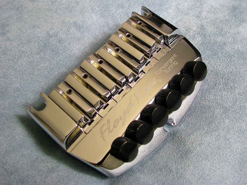 Floyd Rose Convergent Tuning SpeedLoader guitar bridge